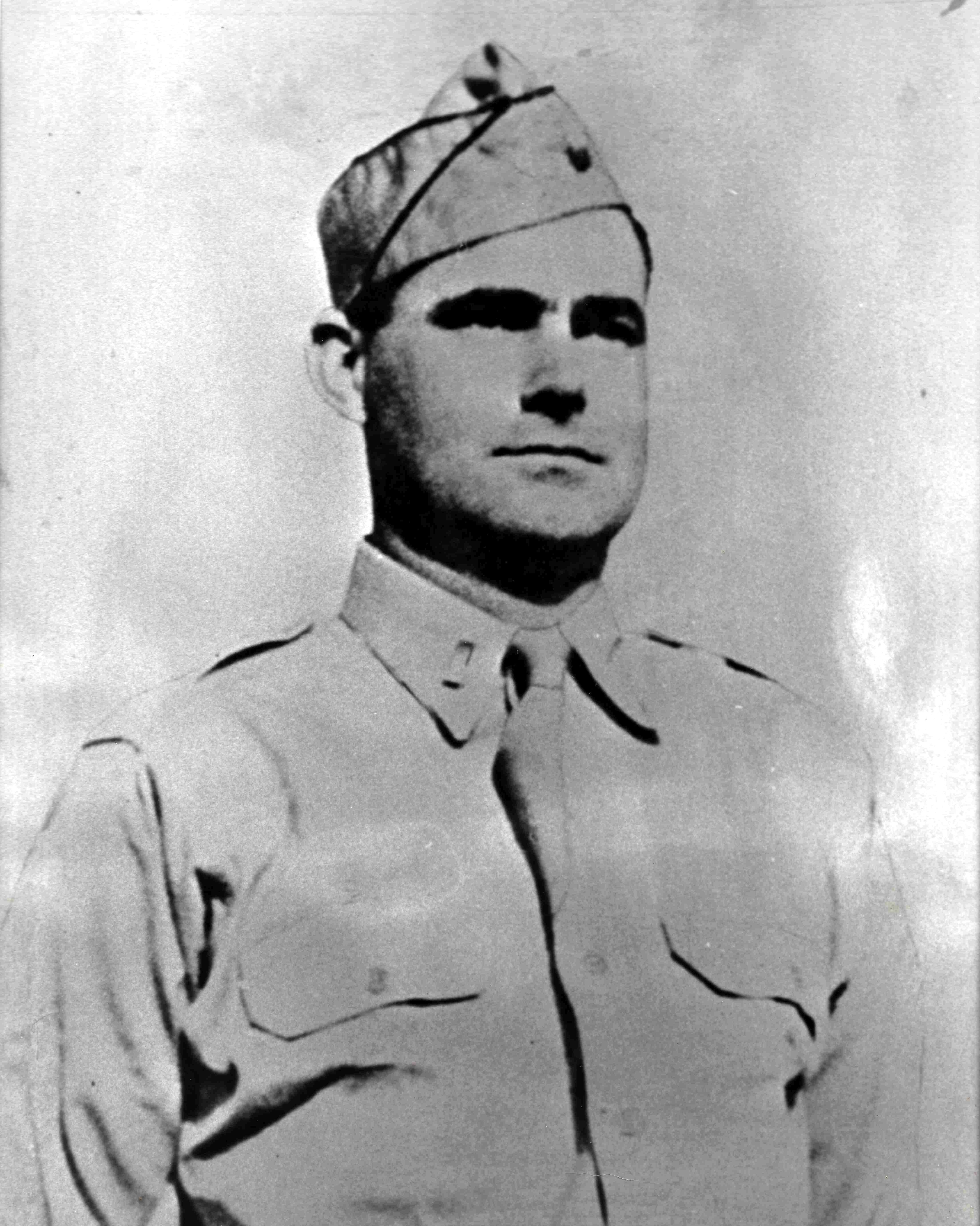 Army commissioning photograph of Robert M. Viale. Photograph is courtesy from the widow of Brigadier General Charles R. Viale, USA - Roberts Viale's son.